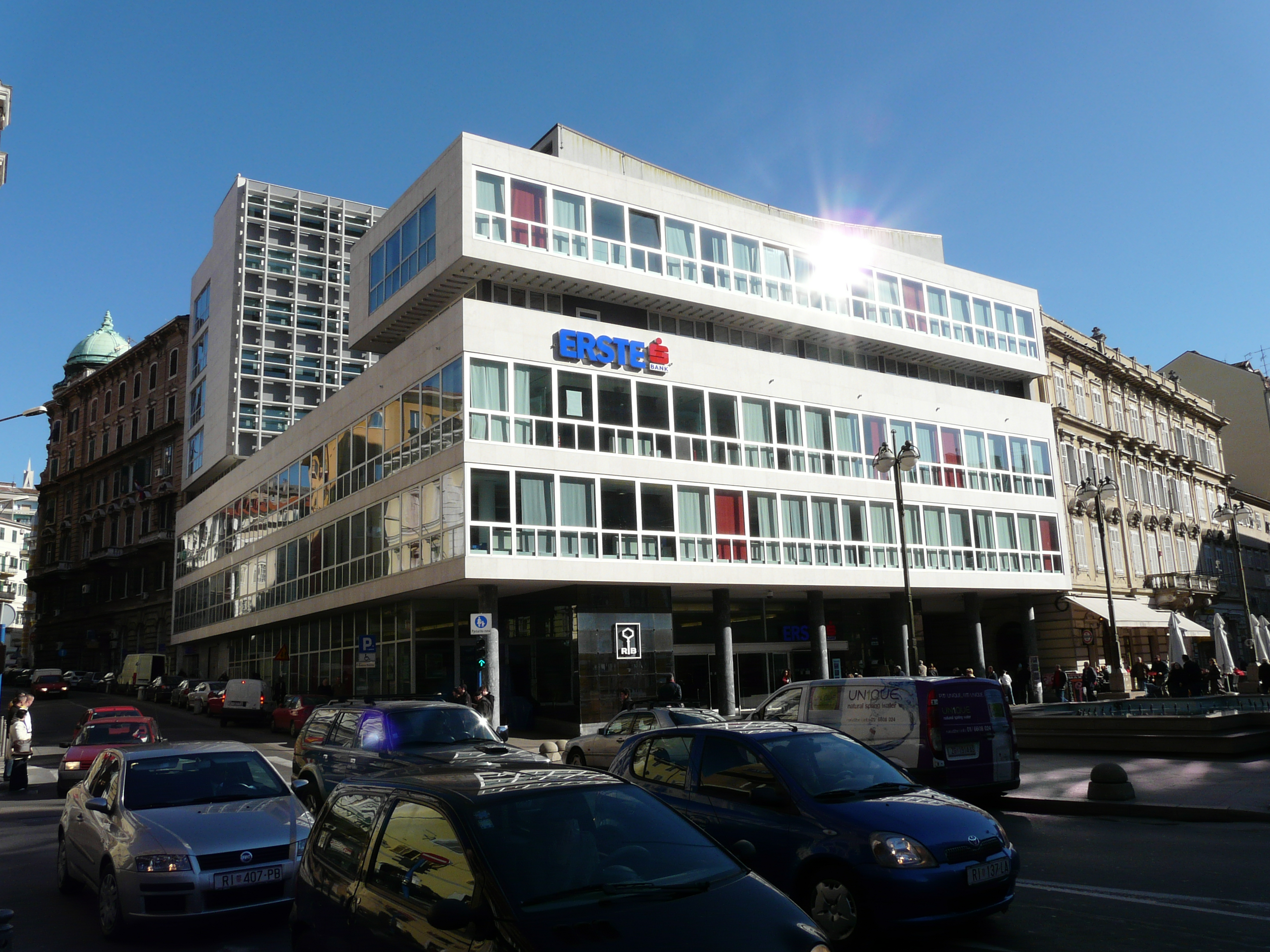 Erste Bank building on Jadranski trg in Rijeka.